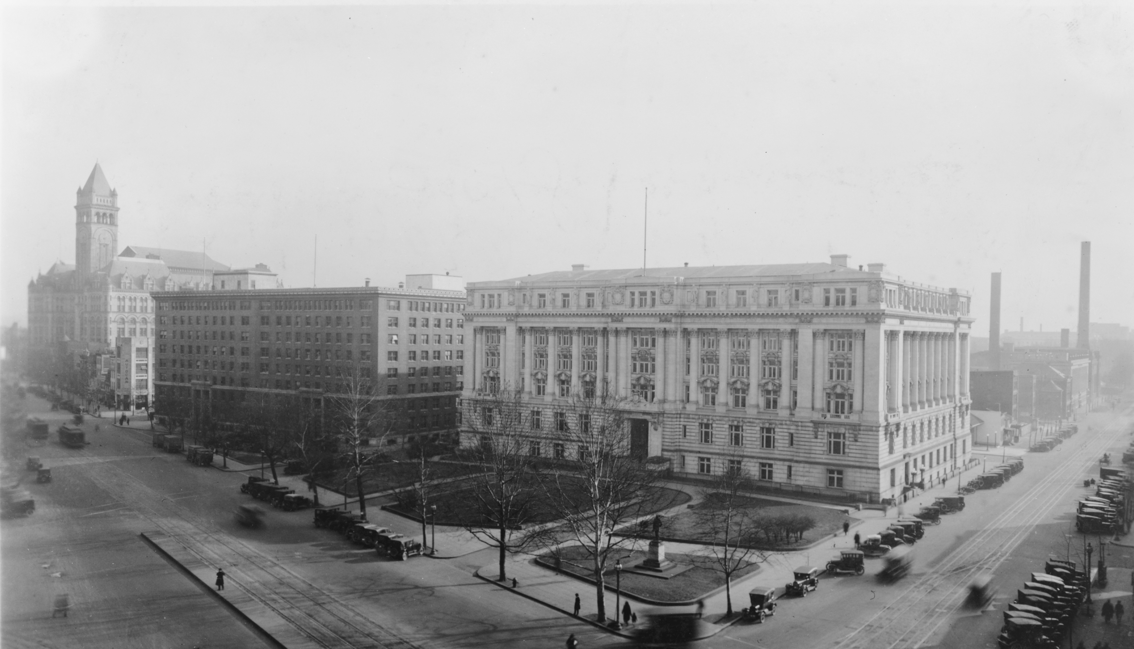 Looking southeast at the Old Post Office Pavilion (far left), Southern Railway Building (middle), and District Building on Pennsylvania Avenue NW in Washington, D.C., in 1932. On in the fall of 1932, the structures in rear of the District Building would be razed to make way for the U.S. Department of Labor building, whose cornerstone would be laid on December 15, 1932.